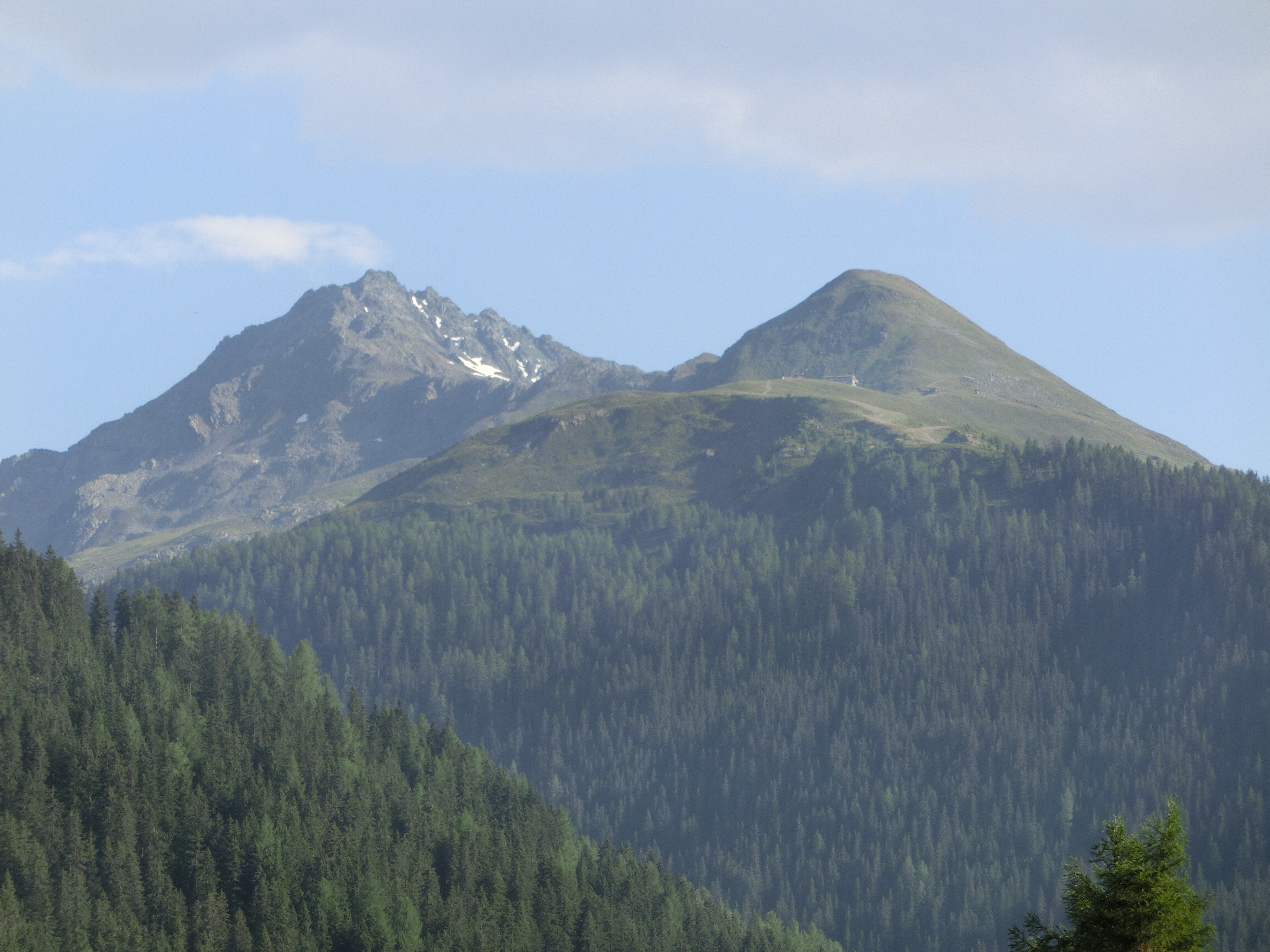 Leidbachhorn and Rinerhorn, picture taken from Davos, Grison, Switzerland